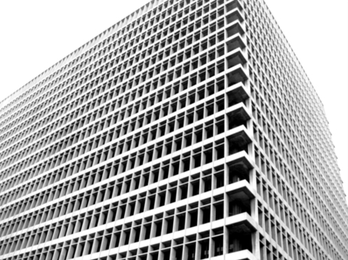 Black & white photograph of the C.S. Foltz Criminal Justice Center building on 210 W. Temple Street in downtown Los Angeles, California. The photograph was taken with a Nikon Coolpix e3200 digital camera and edited (for color balance, brightness and contrast) using ArcSoft PhotoStudio 5.5